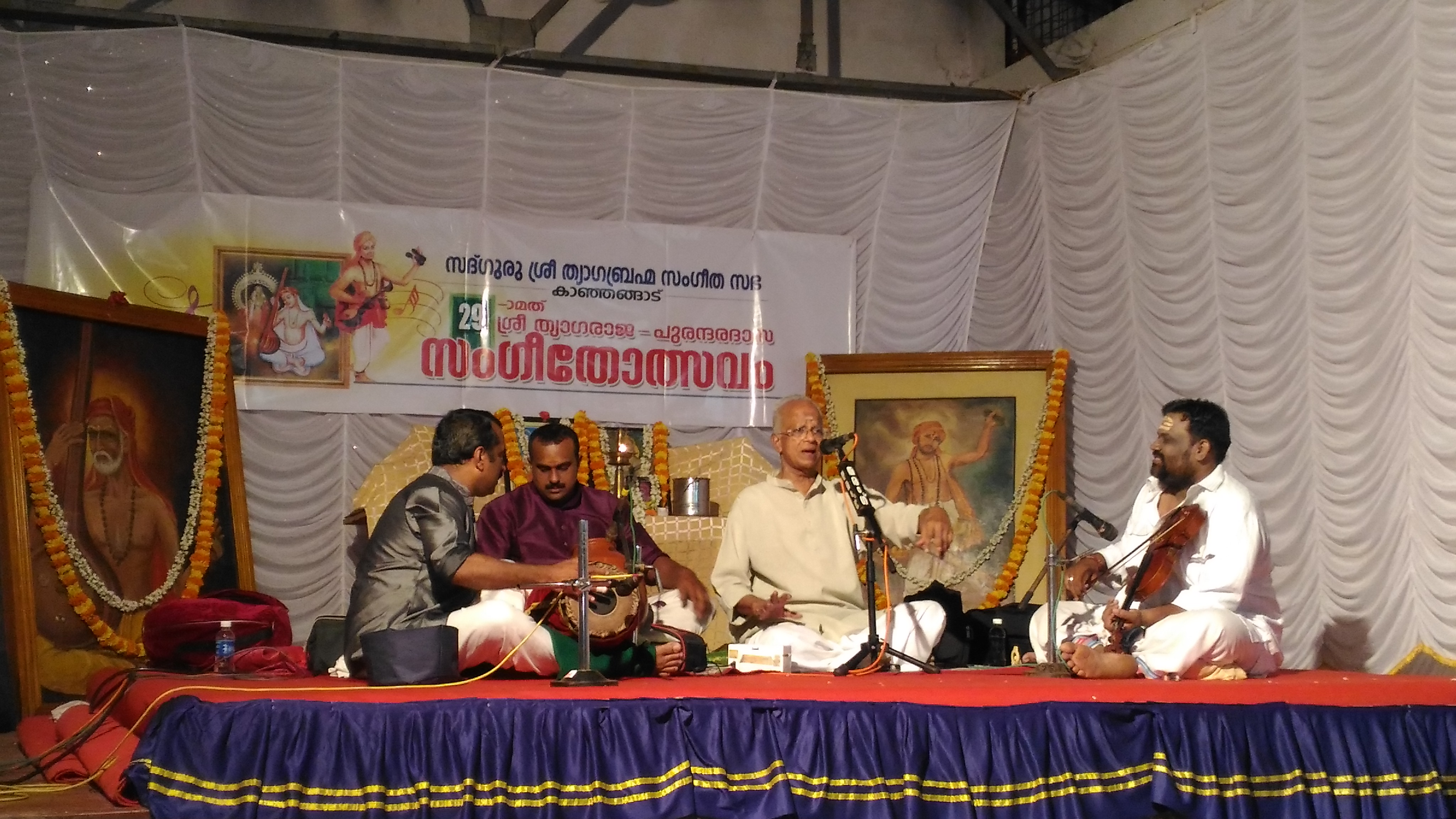 Carnatic musician T. V. Sankaranarayanan